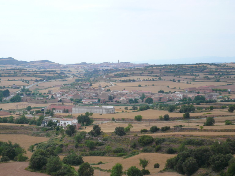 Image is taken from here